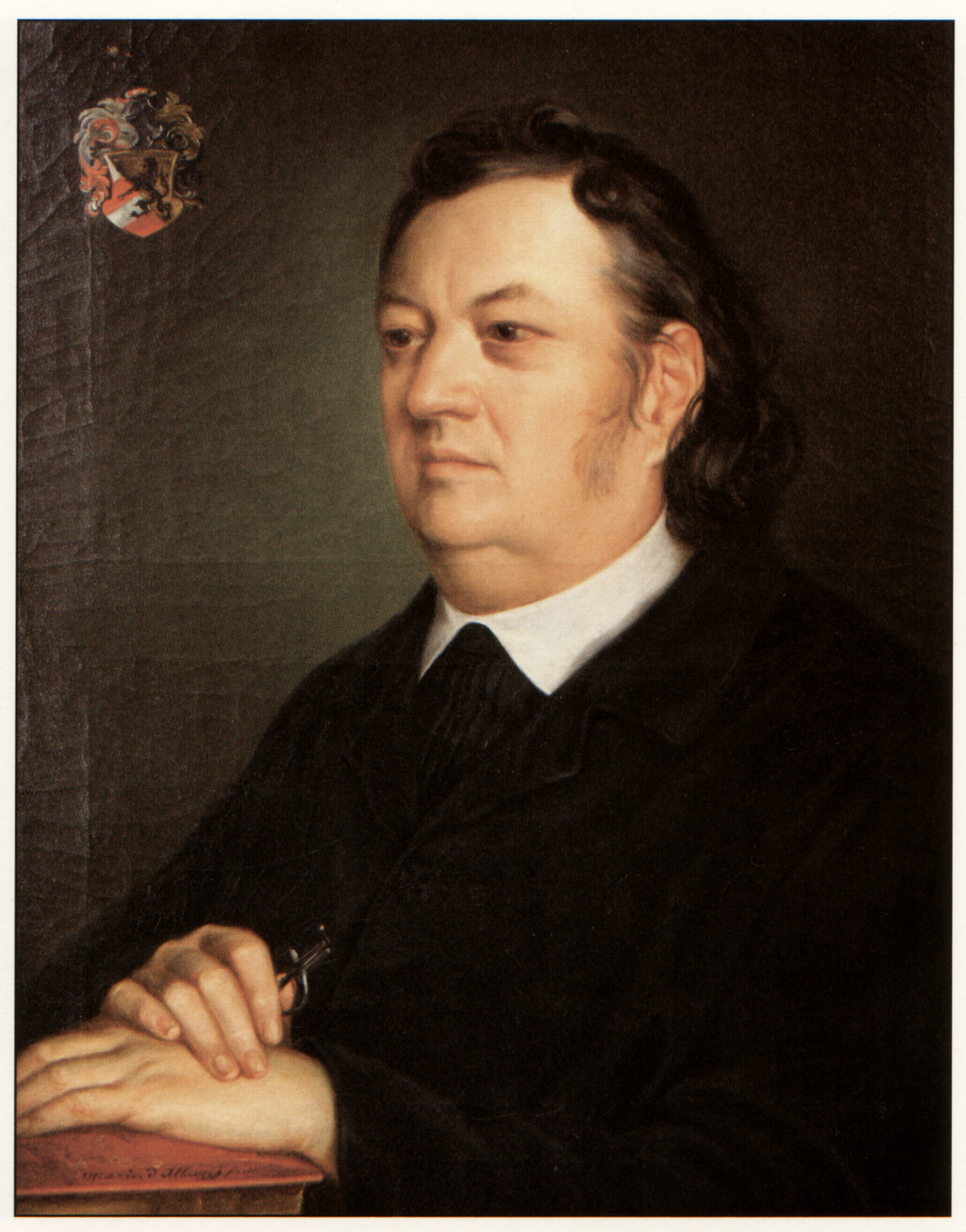 Justinus Kerner on a 1852 painting by Ottavio d'Albuzzi